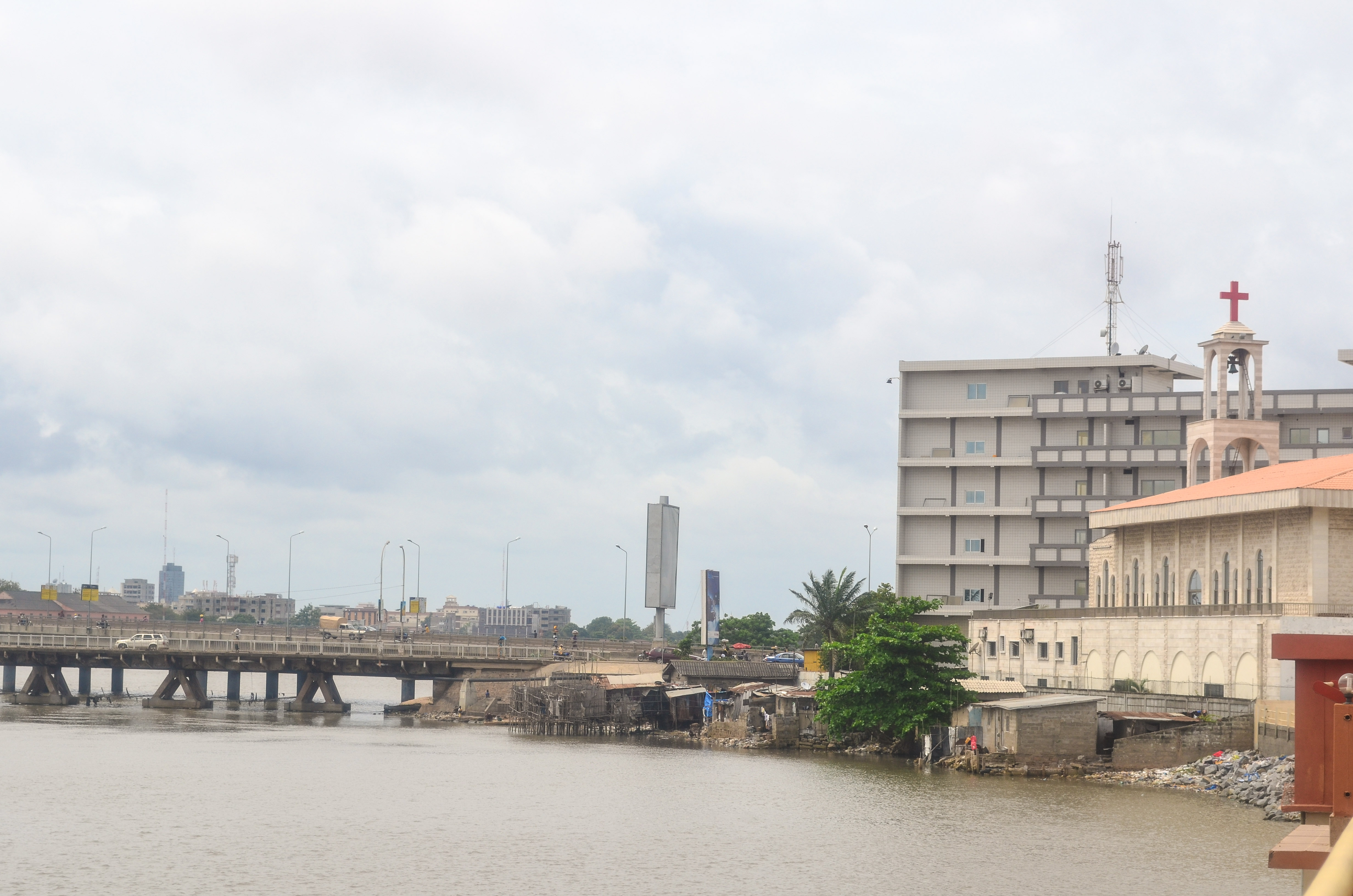 Taken on 05 October 2013 in Benin around Ganvié : Cycling Africa beyond mountains and deserts until Cape Town